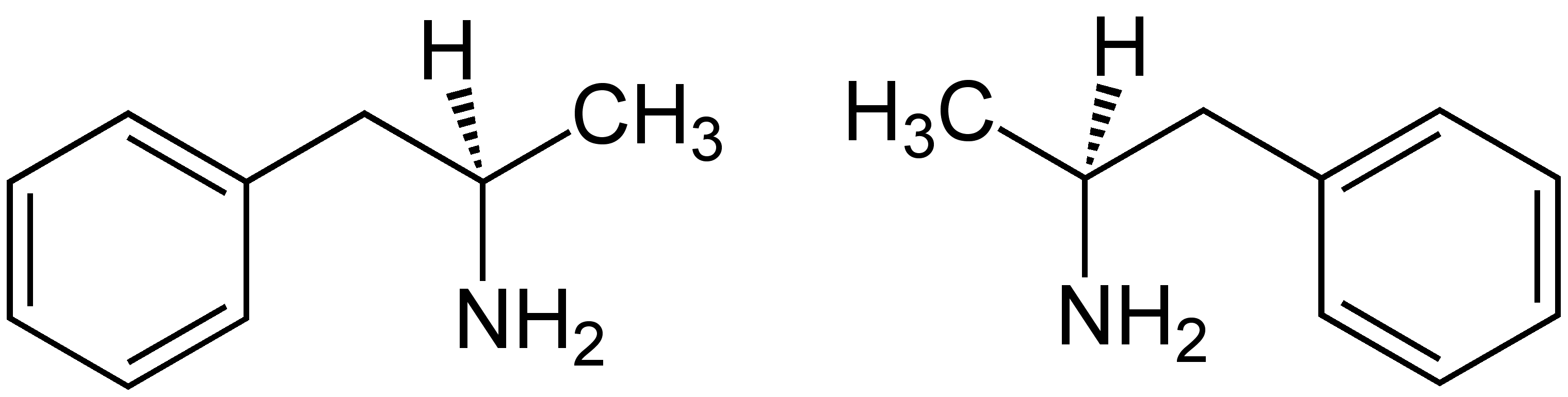 Amphetamine Structural Formulae: (R)-amphetamine or Levo-amphetamine (left) and (S)-amphetamine or Dextro-amphetamine (right)